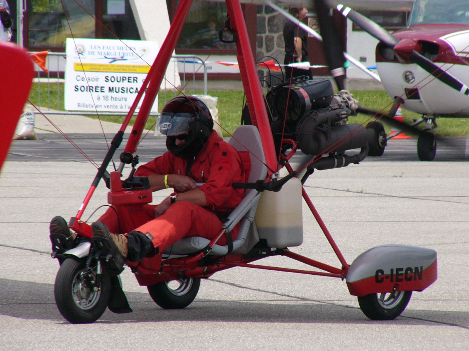 Air Creation Fun Racer 503 at Les Faucheurs de Marguerites, Sherbrooke, Quebec, Canada